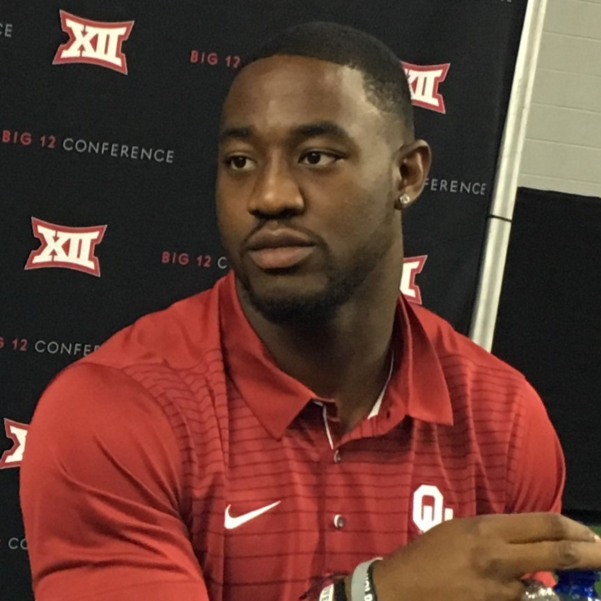 Ogbonnia Okoronkwo, linebacker for the Oklahoma Sooners football team, at the 2017 Big 12 Conference Media Days in Frisco, Texas.